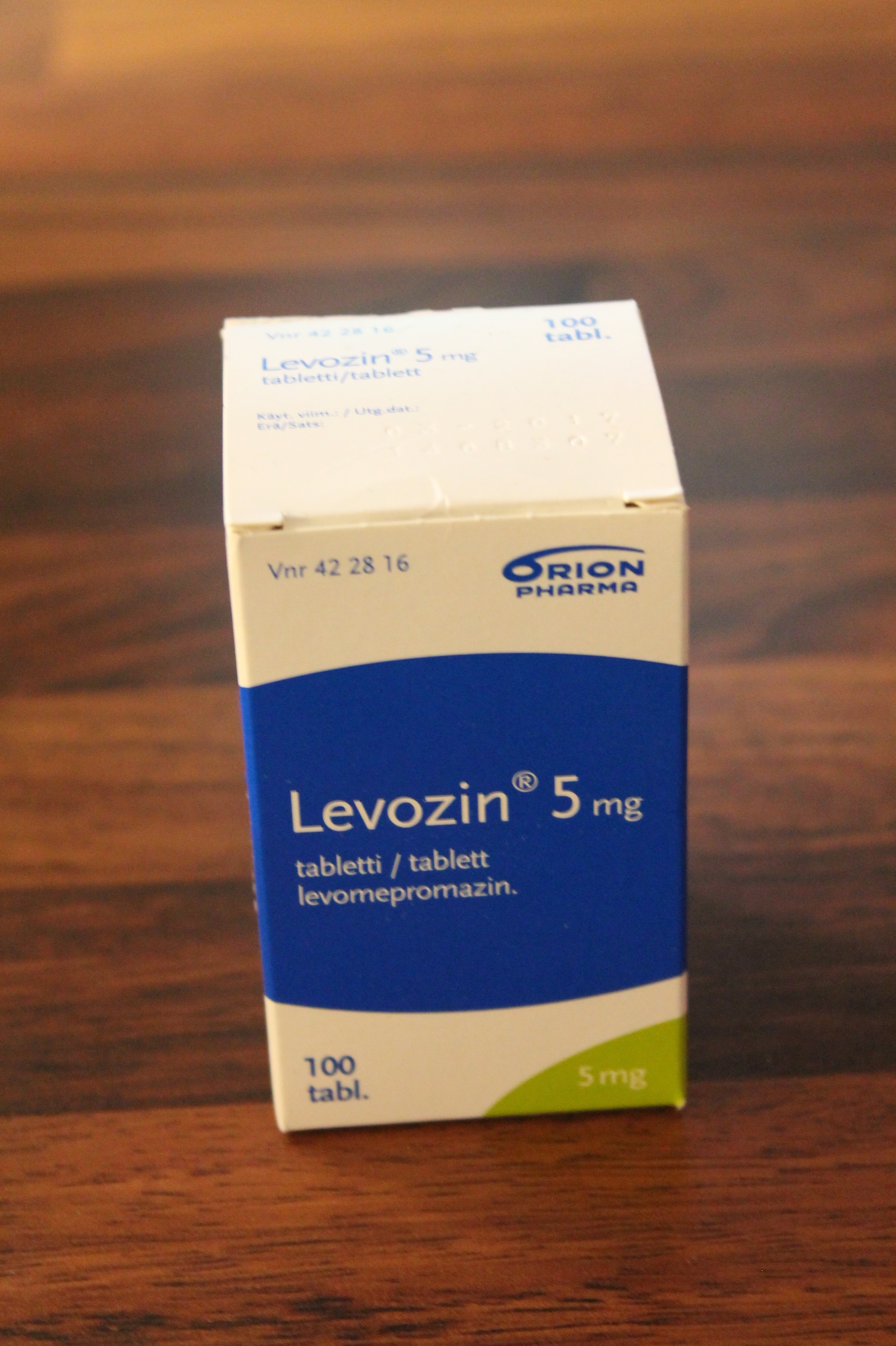 Levozin (Levomepromazine) 5mg.